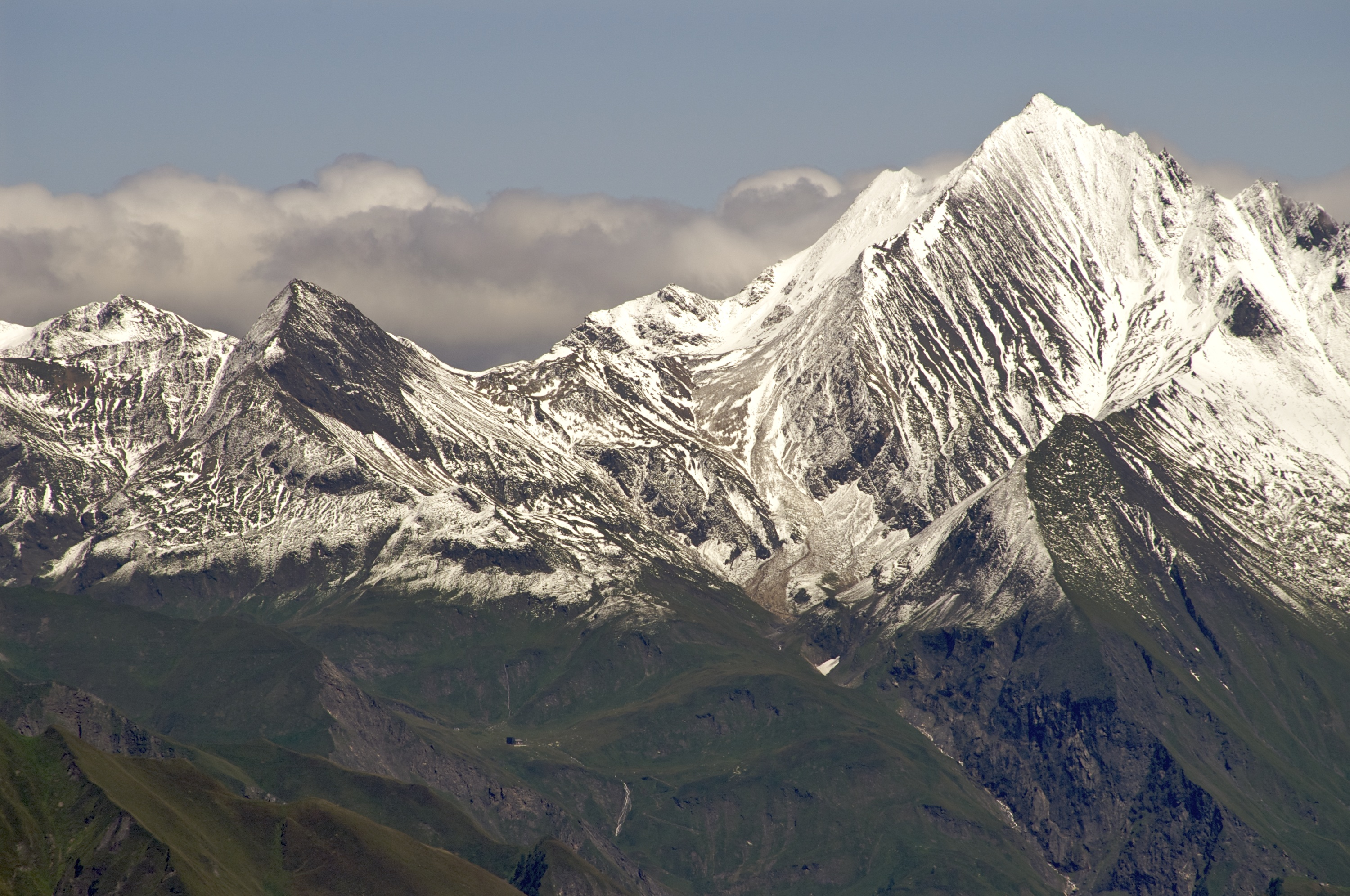 Piz Terri 3149m - Alpi Lepontine - Ticino - Switzerland